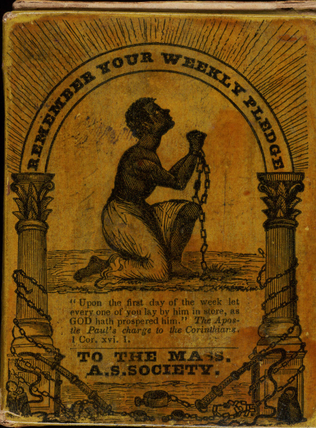 Side of collection box of the Massachusetts Anti-Slavery Society. Note on the box: "Let this box remain stationary upon the chimney piece or table in the most public room in your dwelling, as it will not only give strangers an opportunity to aid in swelling the bondman's treasury, but it will also remind the contributors of their weekly pledge." The cardboard box served as a collection box for contributions to the Abolitionist cause. Courtesy of Randolph Linsly Simpson African-American Collection, Beinecke Rare Book & Manuscript Library, Yale University.[1][2]